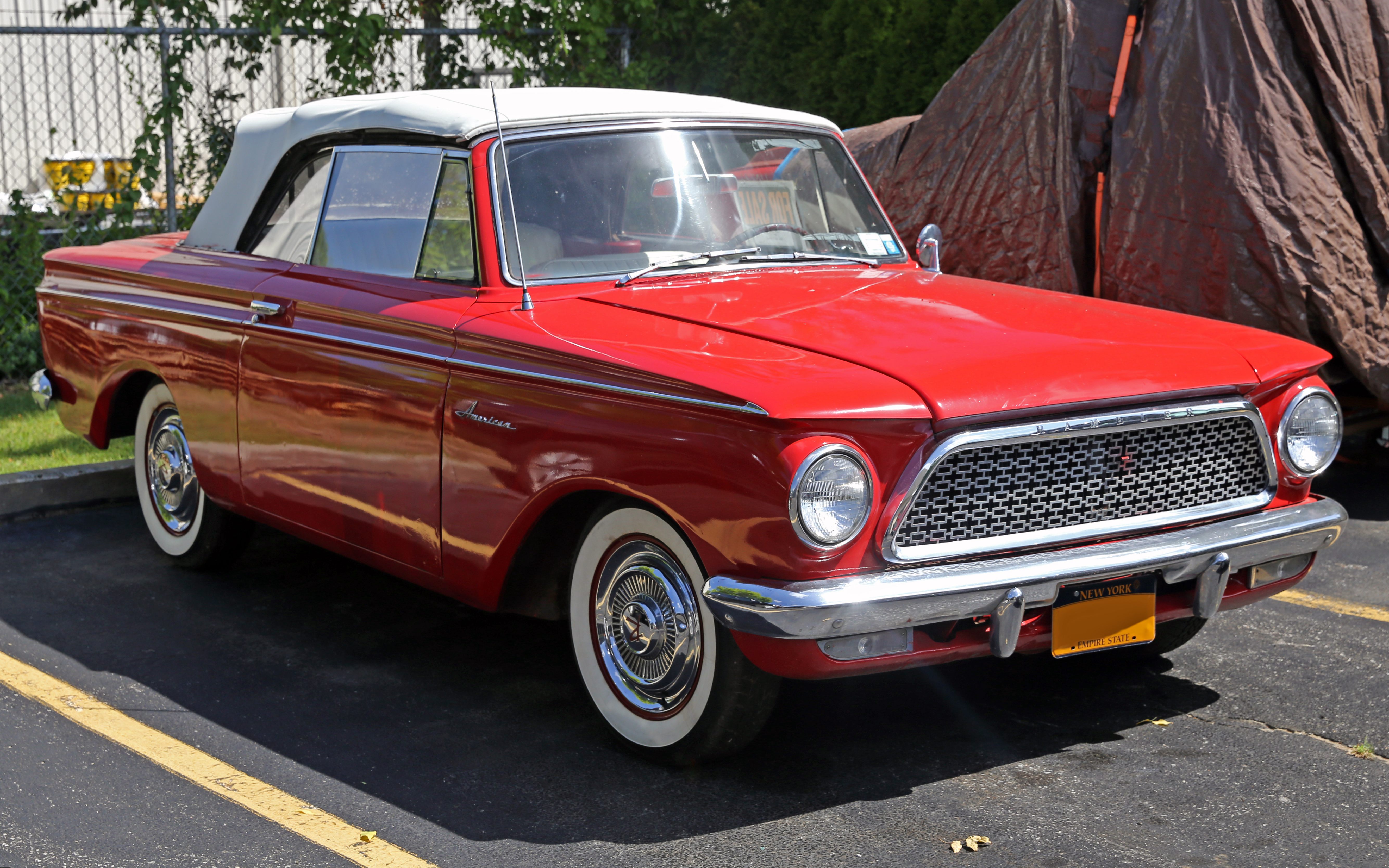 A 1961 Rambler American convertible at a garage in Long Island somewhere. For sale, $5K!